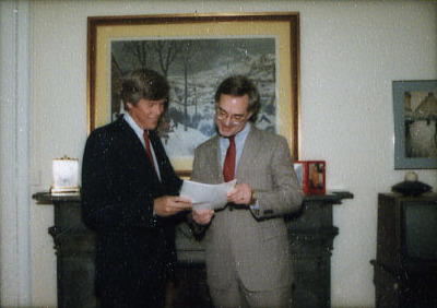 Photo Op. Of Set Momjian friends (2-5) Louise Bell (6-7) Photo op. Of Louise Bell Christopher DeMuth and Connie Mack (8-12) Photo op. Of Congressman Connie Mack and Christopher DeMuth Photo Op. Of unidentified staff (13-15)